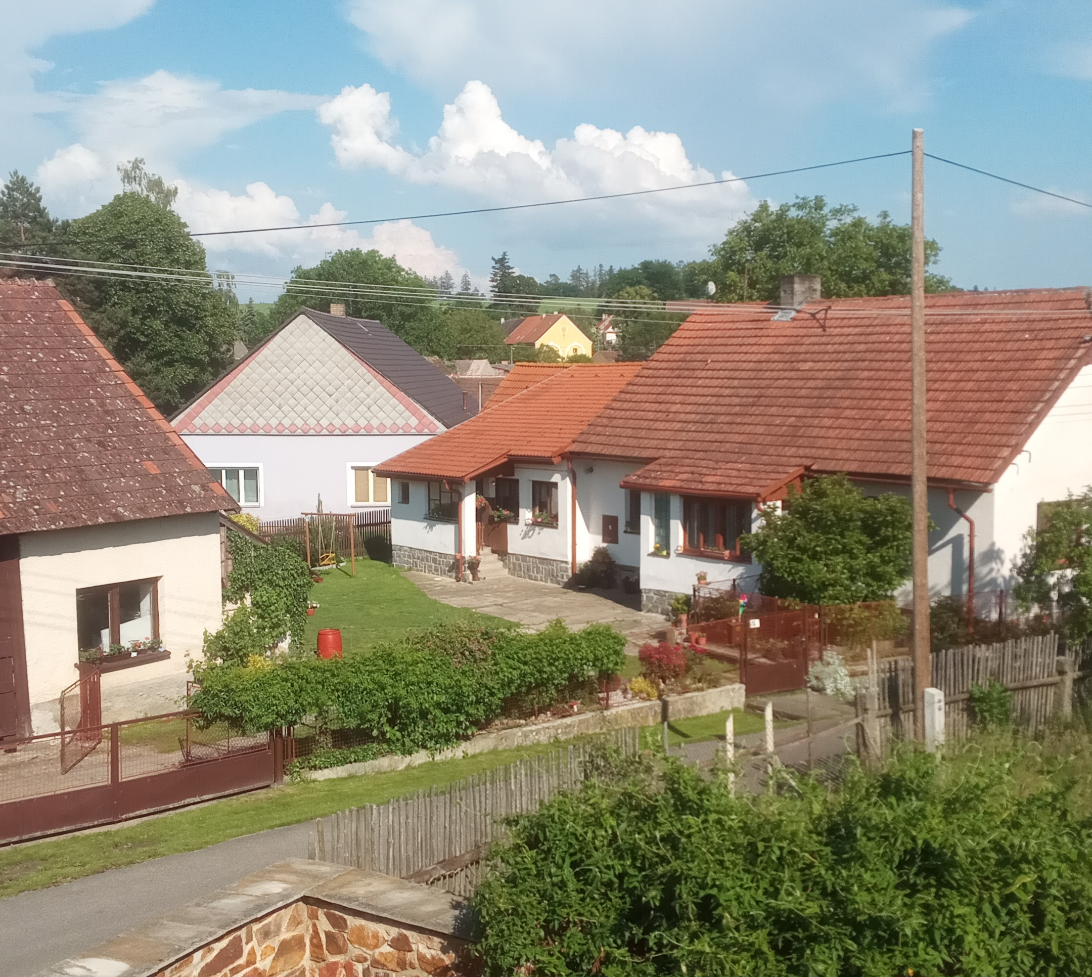 This is photography of small czech village Uzeničky.